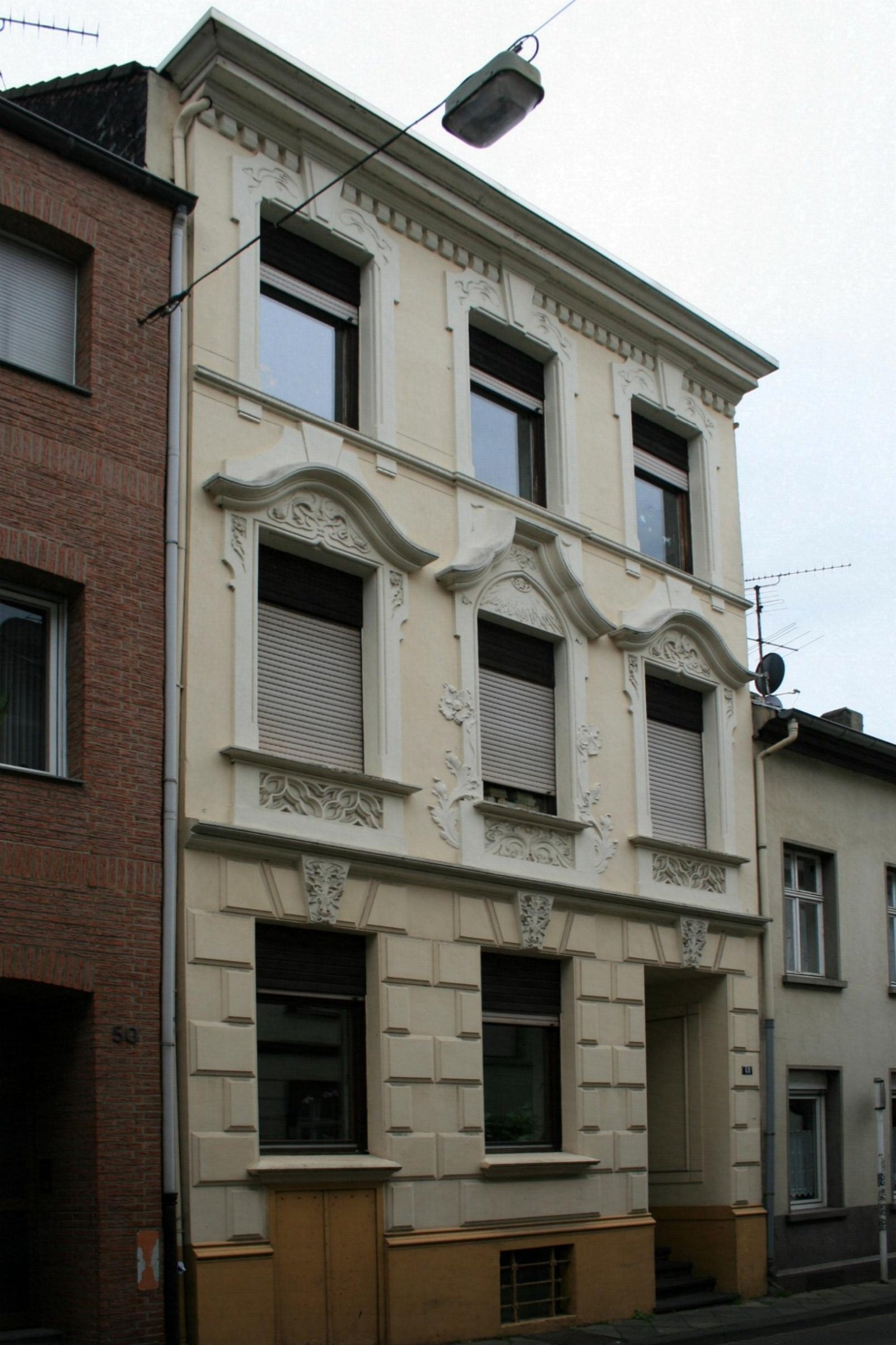 Cultural heritage monument No. G 028 in Mönchengladbach